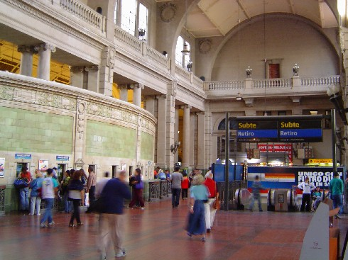 One of the entrances to the Retiro Subway Station, Buenos Aires.